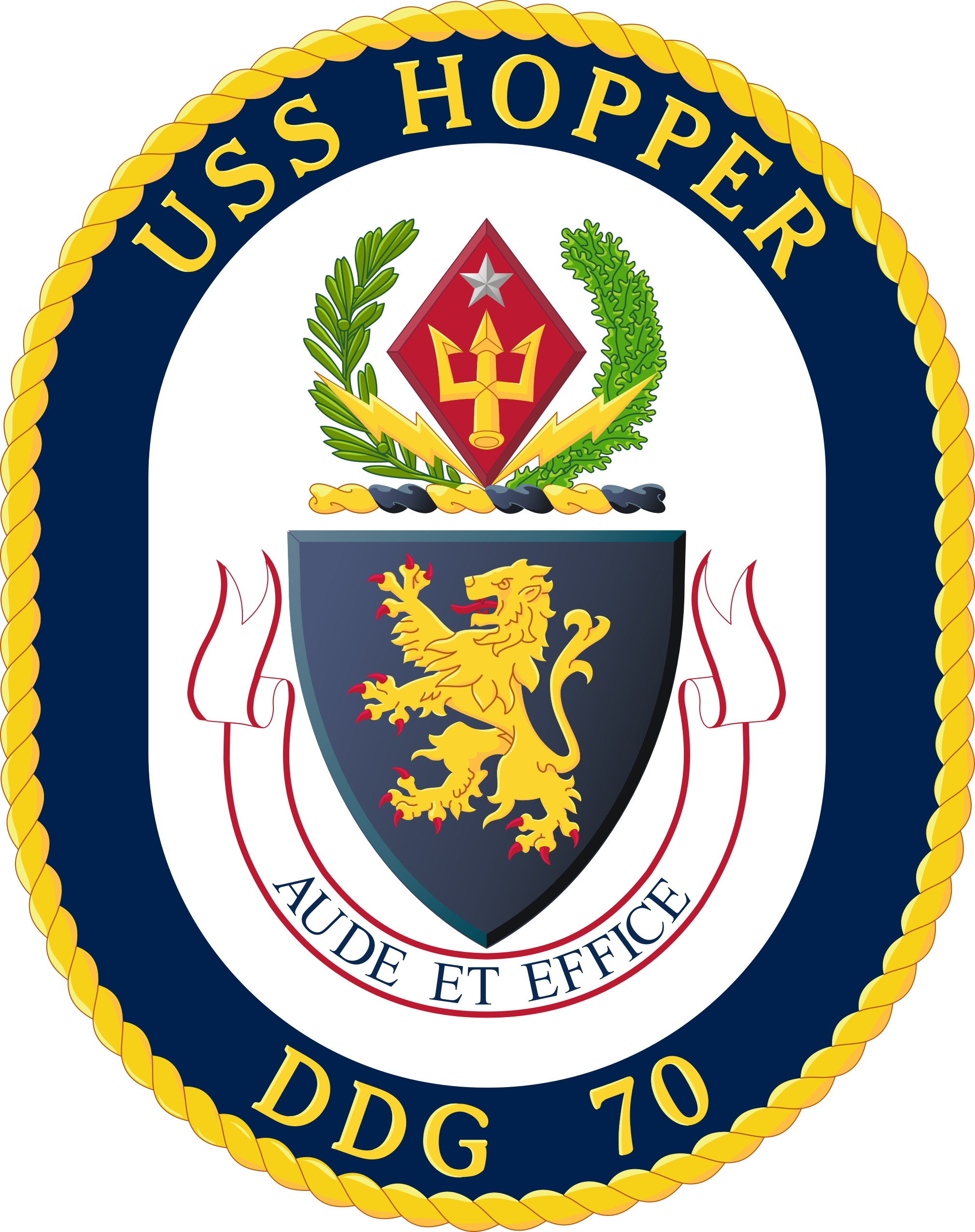 Emblem of the USS Hopper (DDG-70)